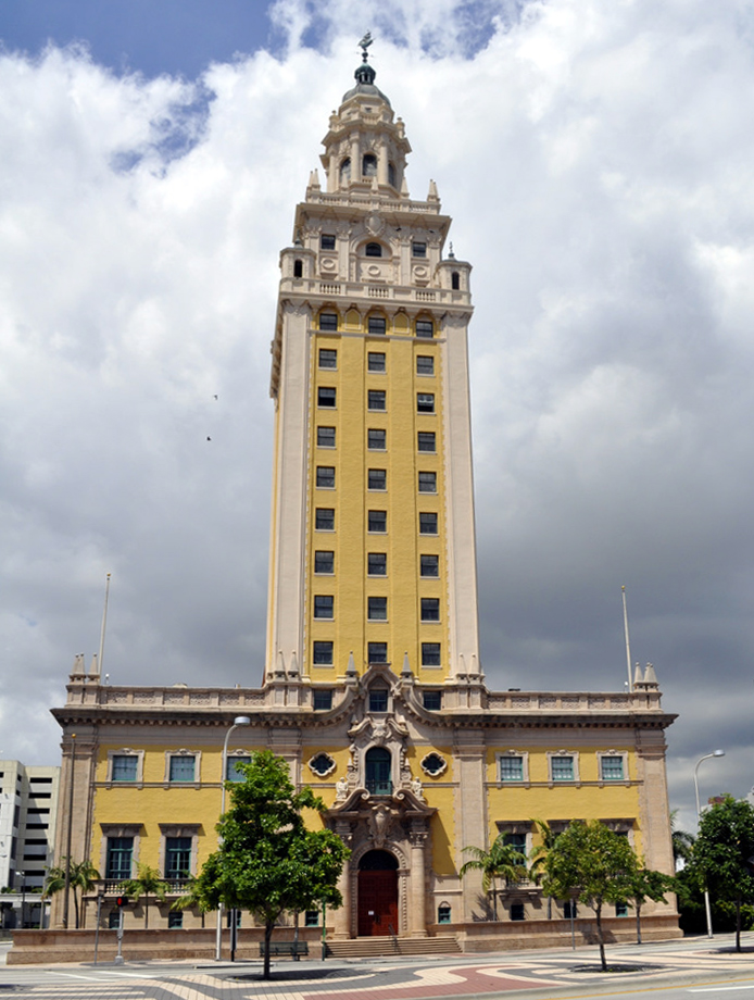 Front of Miami Freedom Tower from Biscayne Blvd.